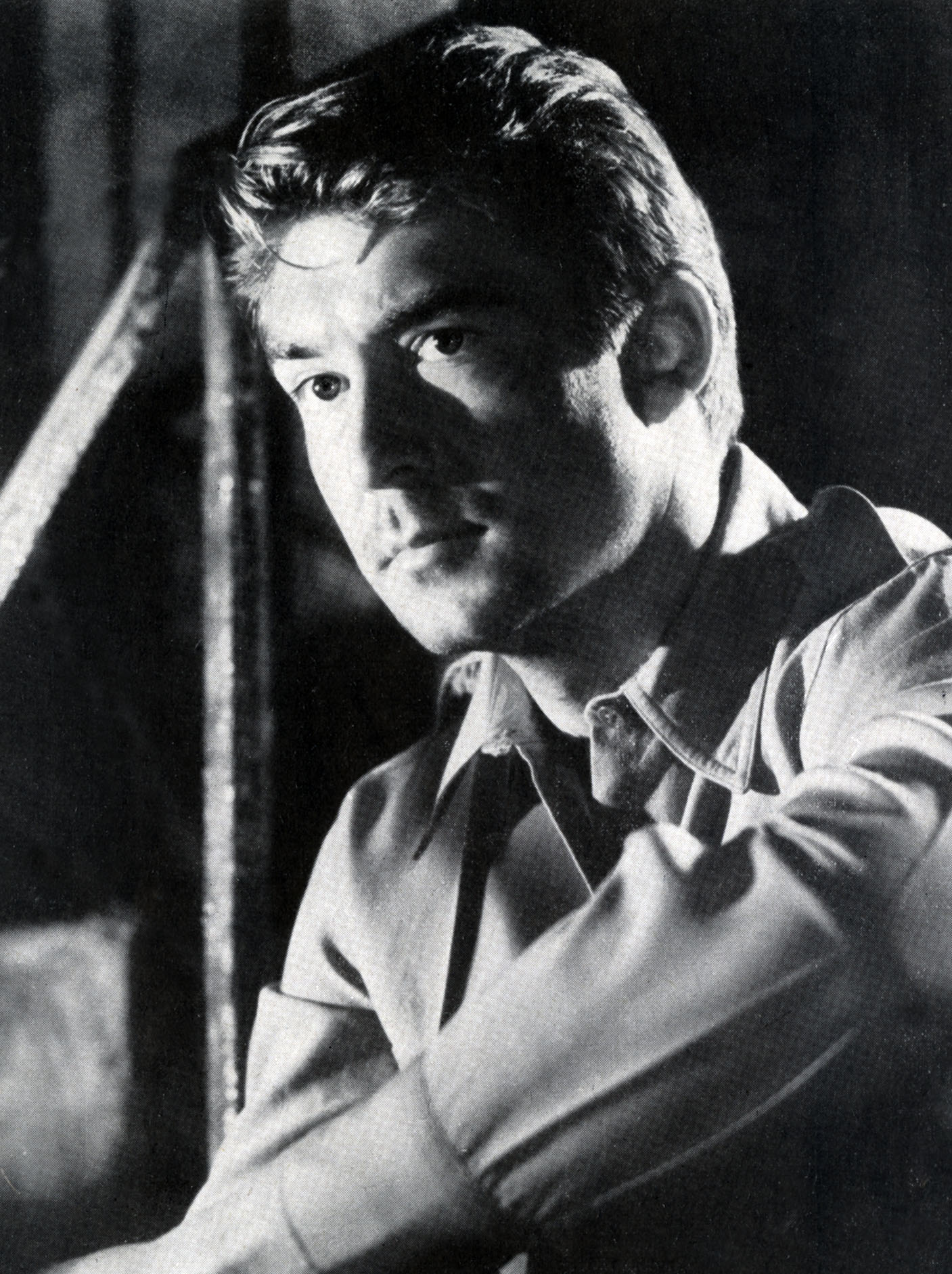 photo from the magazine Cineguida (1953)